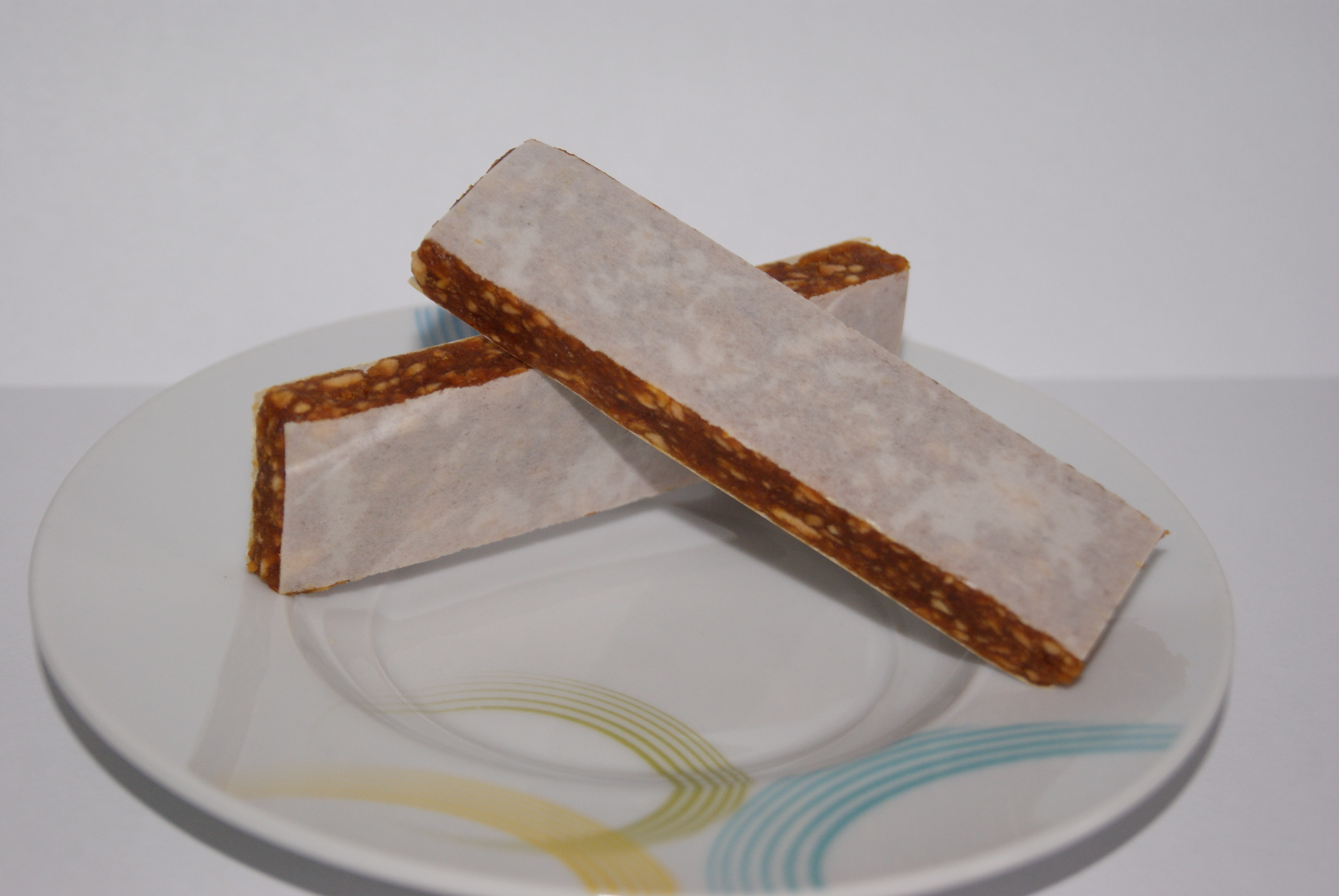 In this picture you see two fruit bars (multifruit) which lay one upon the other on a dish.